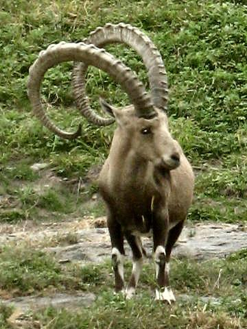 Nubian Ibex at Bronx Zoo.